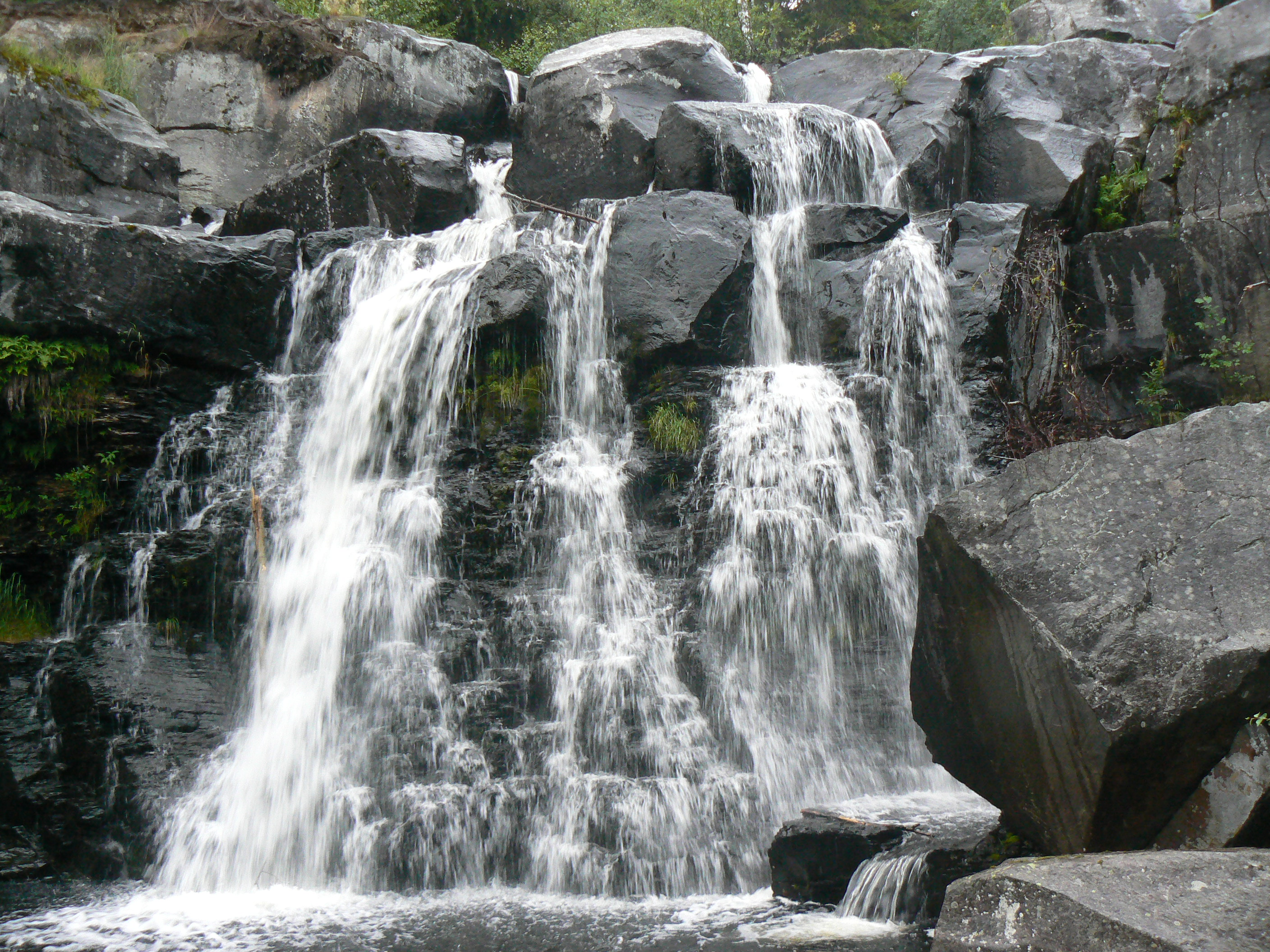 Waterfalls of River Mesna, Norway.